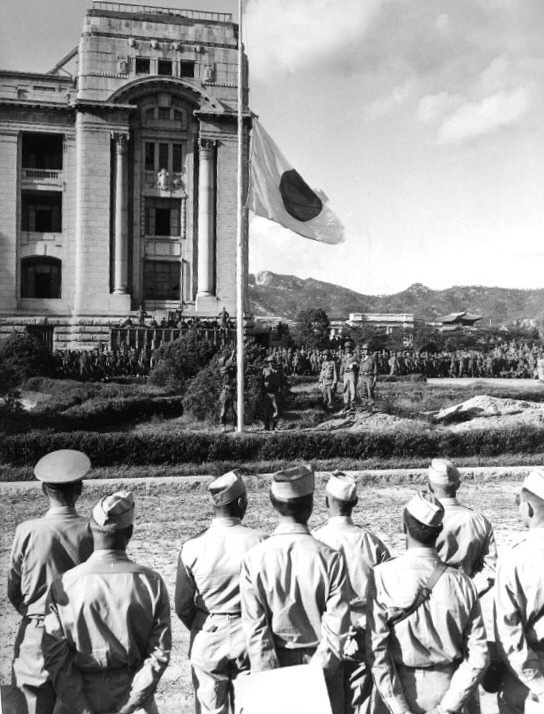 Surrender of Japanese Forces in southern Korea, September 1945. Lowering the Japanese flag, during surrender ceremonies at Japanese General Government Building, Keijo (now Seoul), Chosen (now Korea), 9 September 1945.